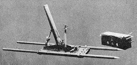 Type 11 Infantry mortar of the Imperial Japanese Army with carrying handles, 1925